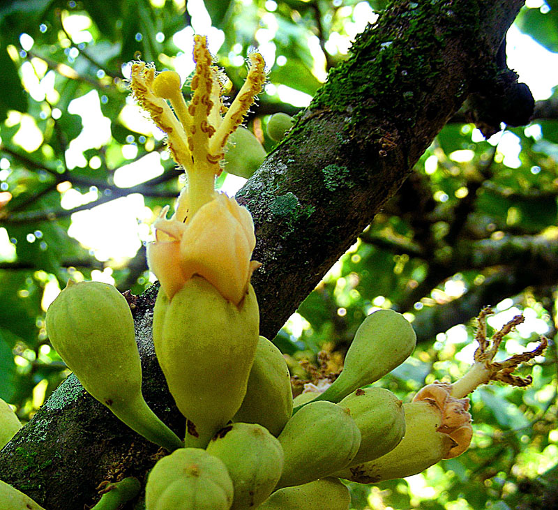 The fruit is known as Zapote Chupachupa. It is native to Colombia and the northwestern Amazon basin, but has been planted widely. Photo from central Colombia. In context at